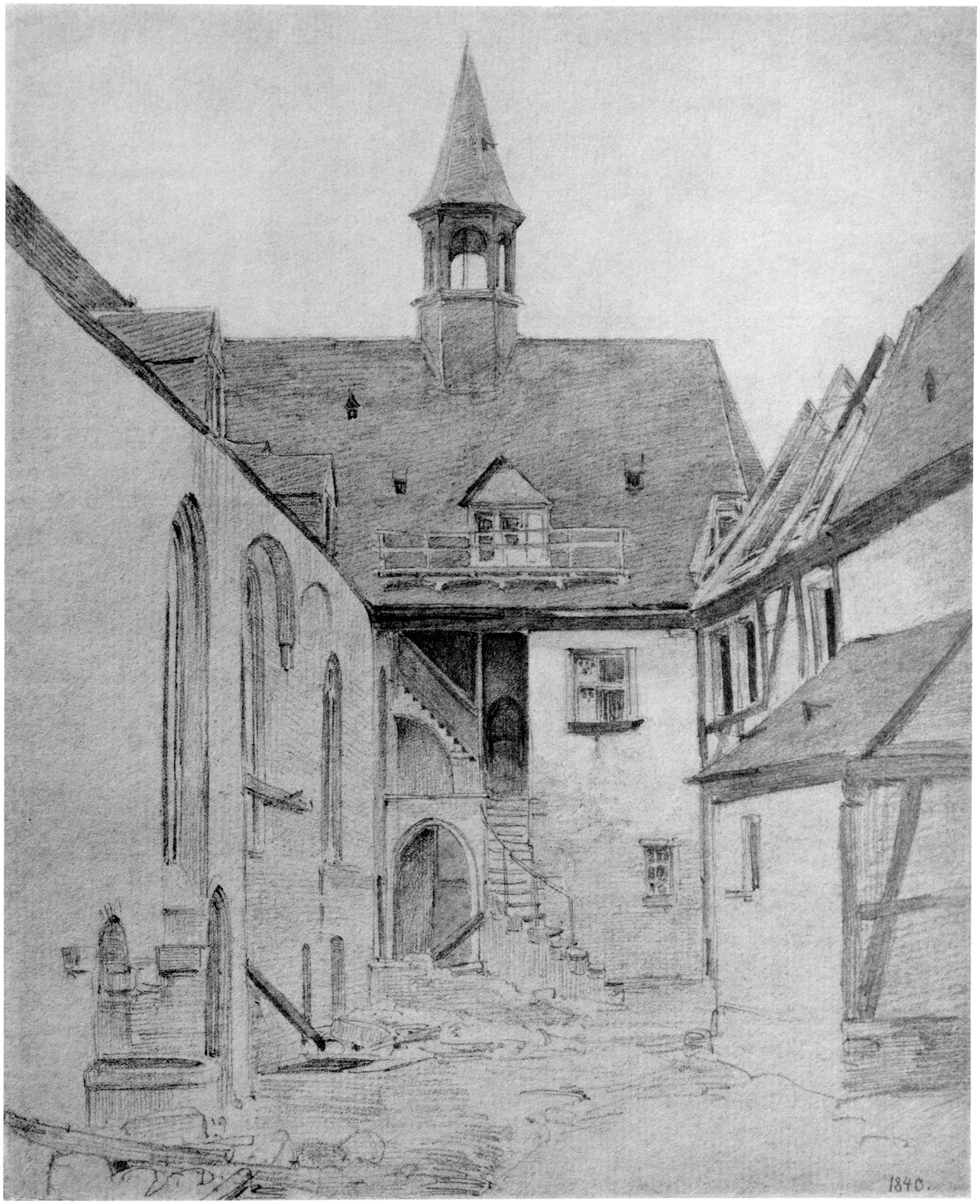 4. Church of the Holy Spirit and a part of the hospital's buildings as seen from the courtyard, as a chapel allegedly 1287, as a church in the mid-1500s, torn down 1840.